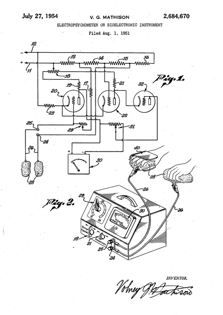 Electropsychometer or bioelectronic instrument. Illustration in application for US Patent 2684670.